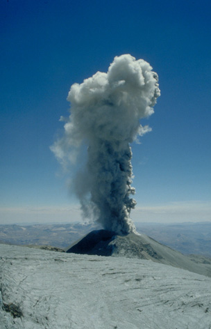 Sabancaya erupting, October 1994